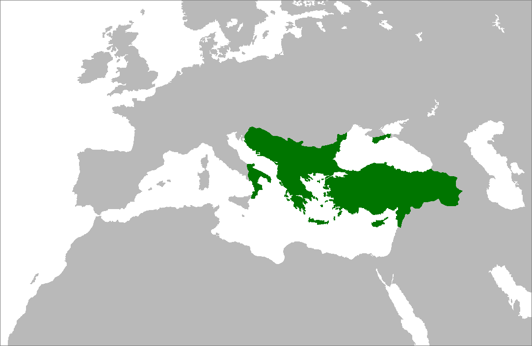 The Byzantine Empire under Basil II - c. 1025